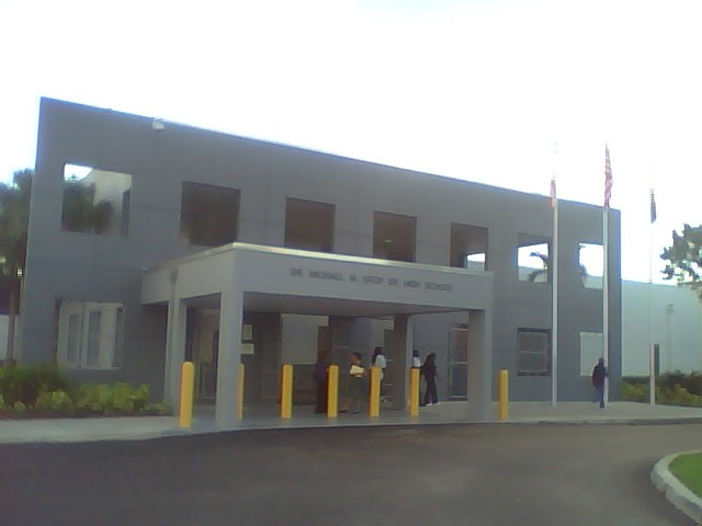 Front of Dr. Michael M. Krop High School